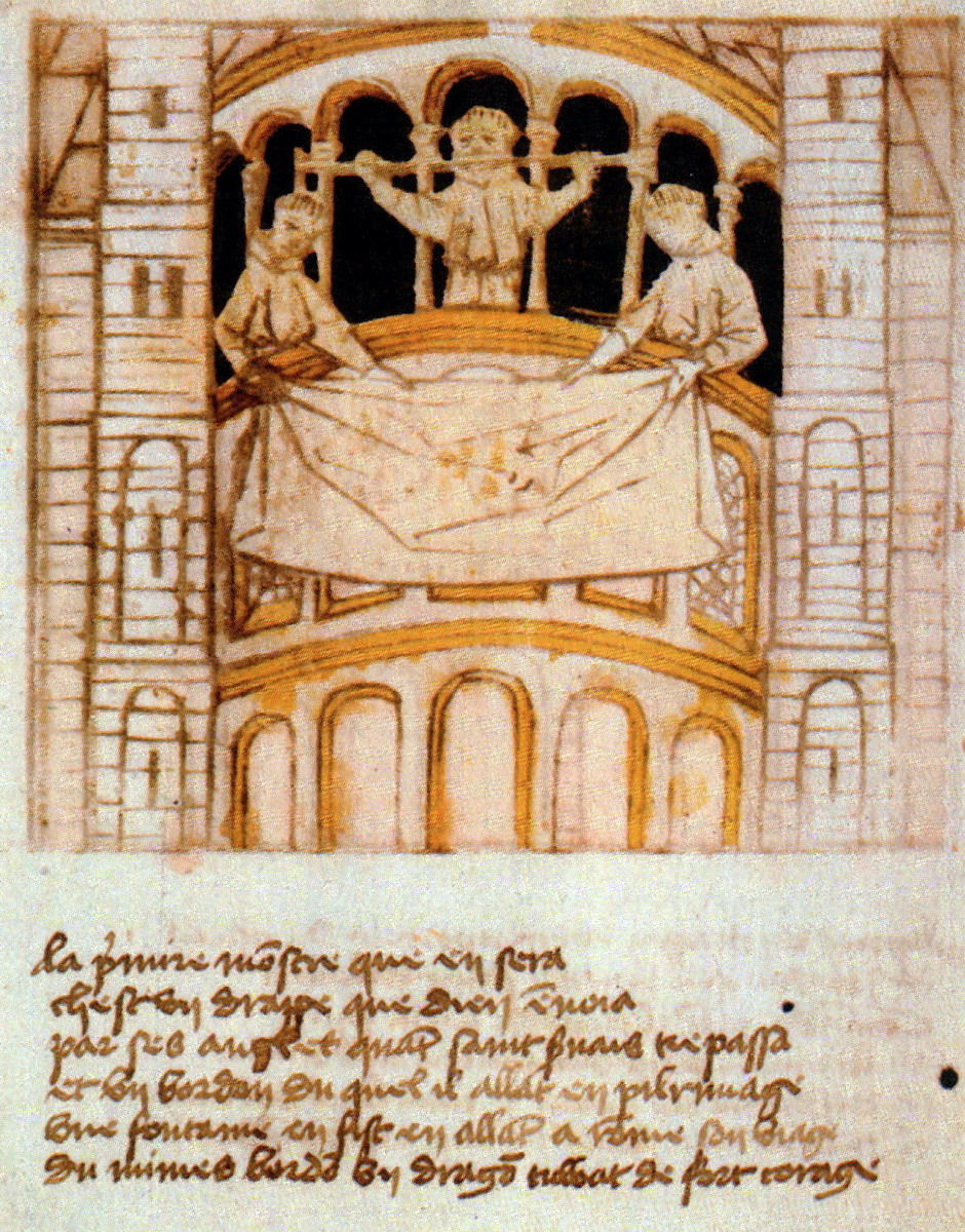 Page from Blokboek van St Servaas (±1460), showing the relics of Saint Servatius being shown to the pilgrims from the dwarf gallery of the church.